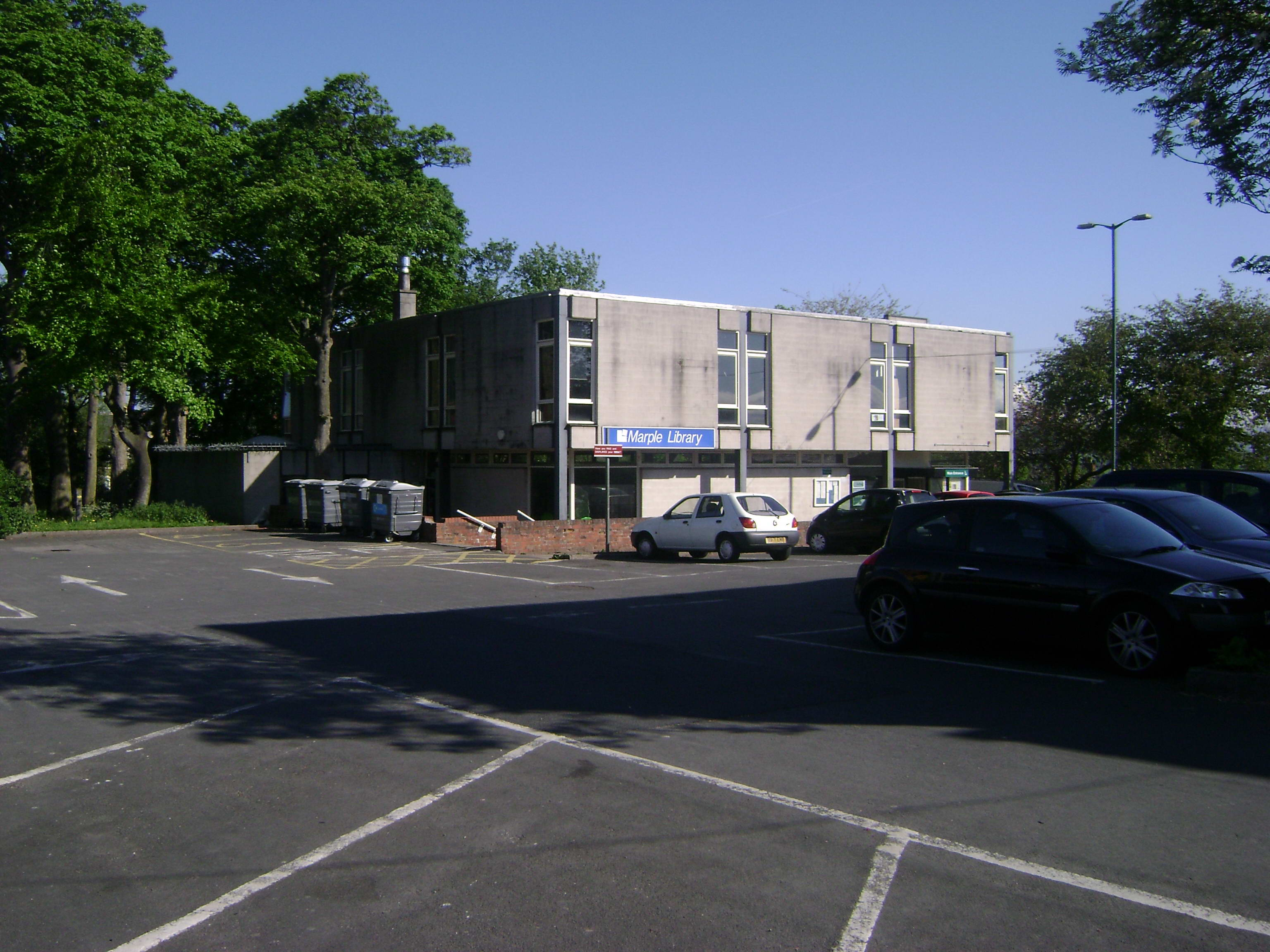 Marple Library, Marple